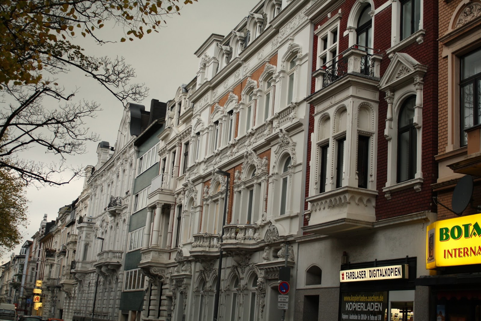 Typical Aachen street with early 20th-century Gründerzeit houses (2)